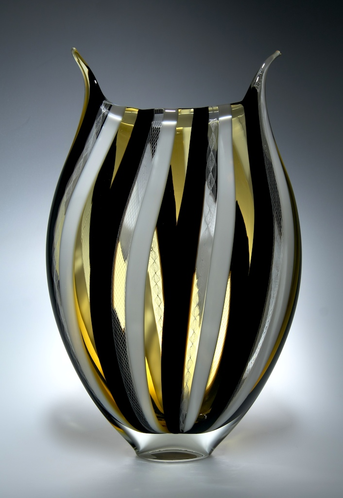 Example of cane technique in blown glass. Created by David Patchen